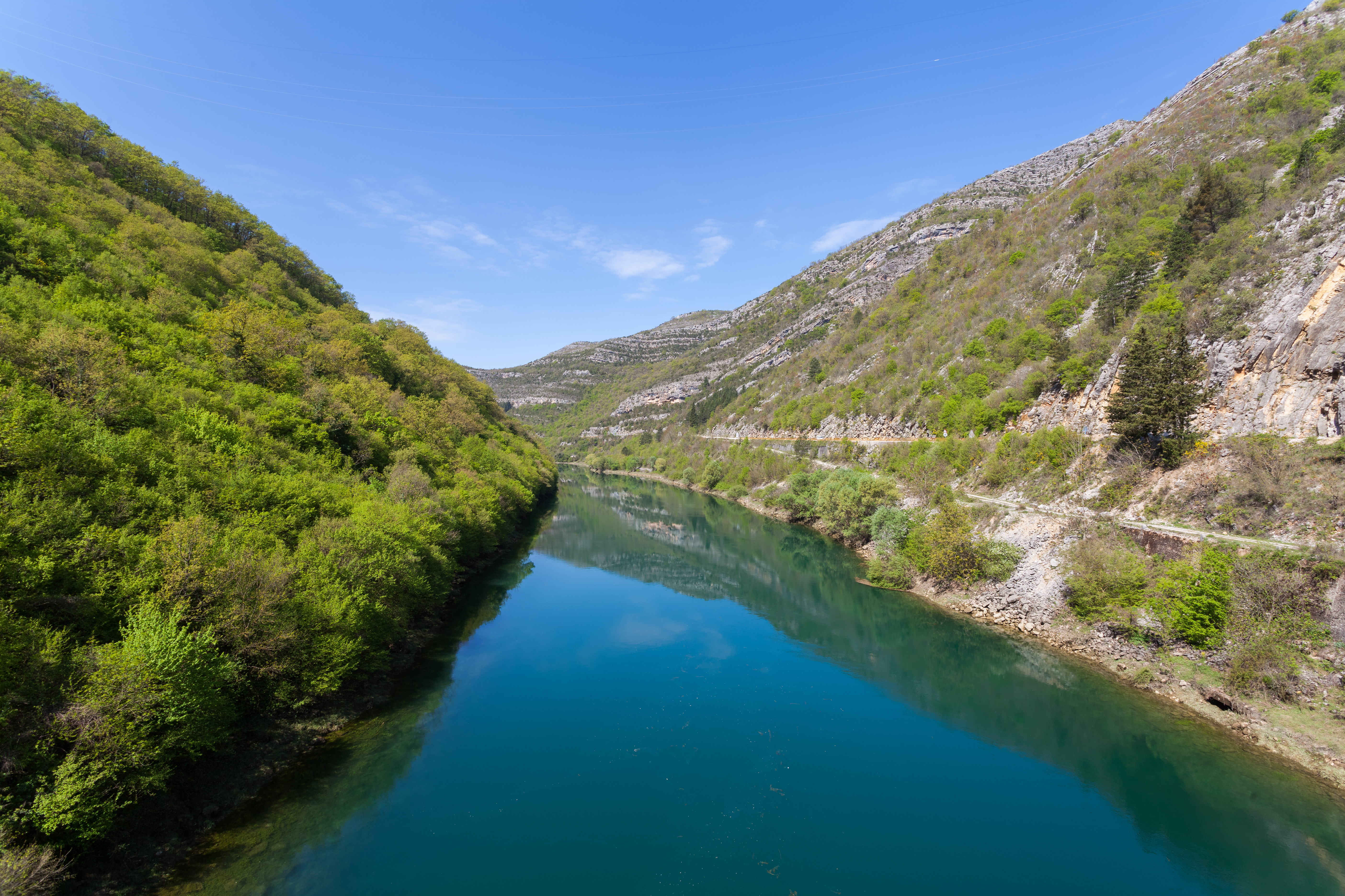 Trebisnjica river, Trebinje, Bosnia and Herzegovina